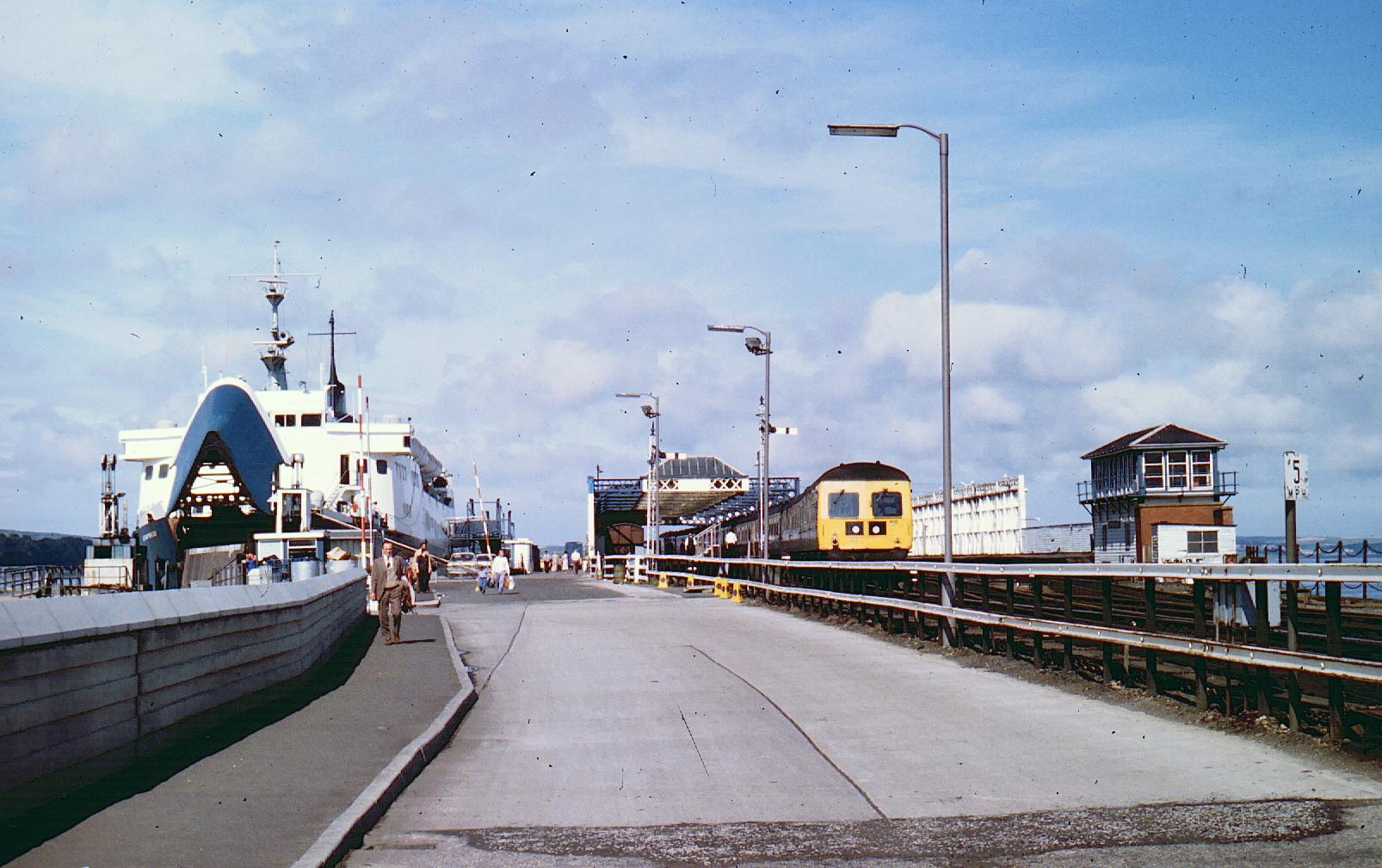 Stranraer Harbour station